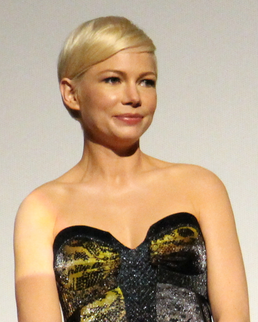 A producer, Michelle Williams and Casey Affleck at the Manchester by the Sea premiere